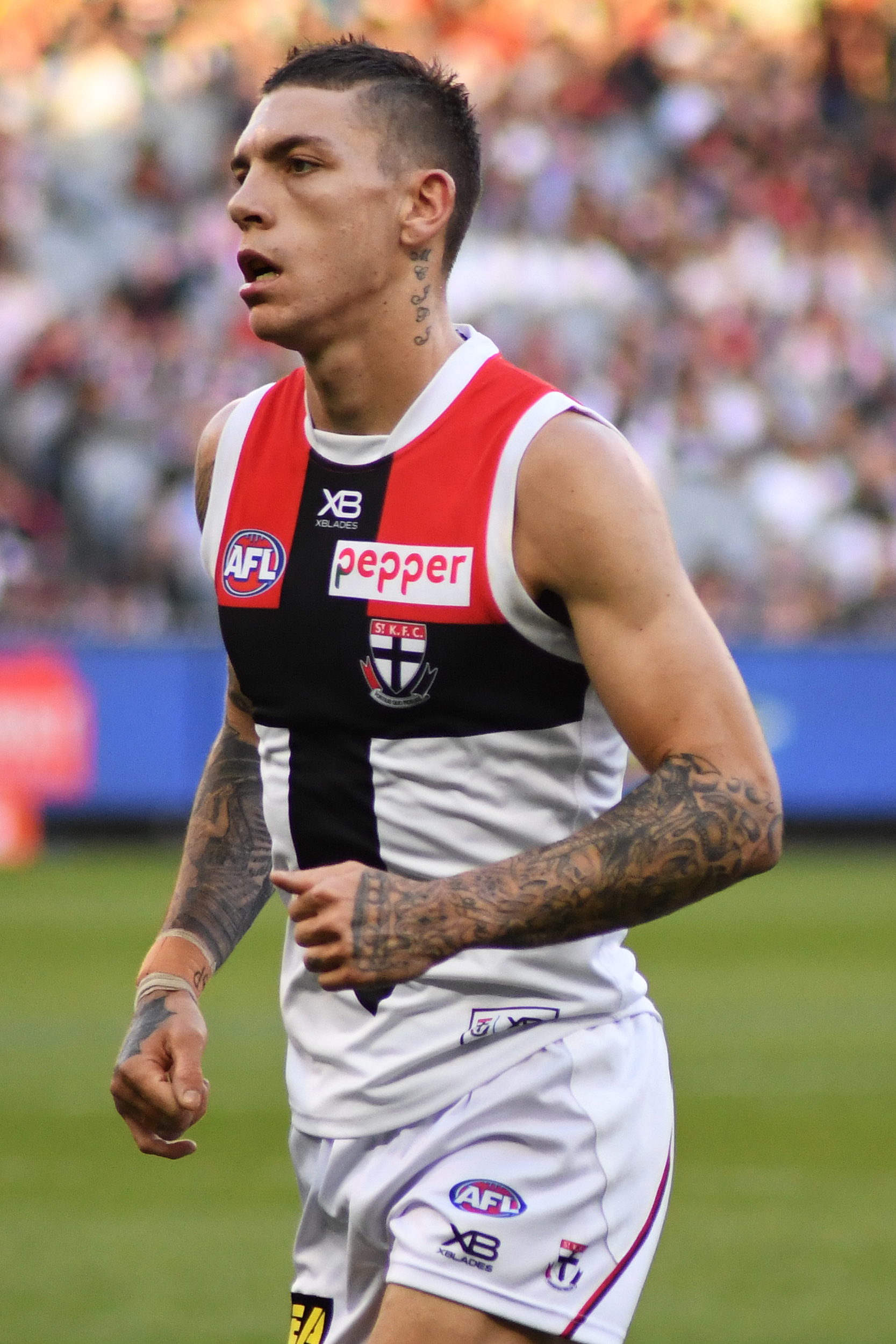 Matthew Parker of St Kilda during the 2019 AFL round 5 match between Melbourne and St Kilda at the Melbourne Cricket Ground on Saturday, 20 April 2019 in Melbourne, Victoria.